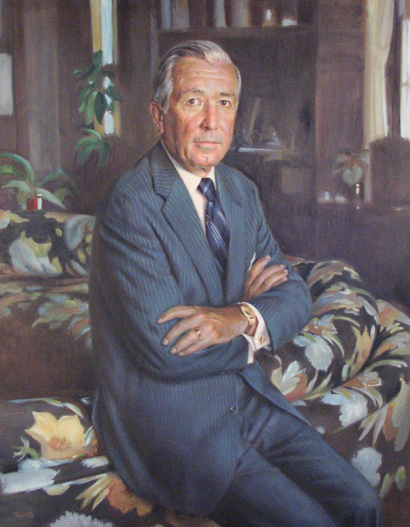 This is a reproduction of the portrait of Donald Regan as CEO of Merrill Lynch, painted in 1981 by the artist Robert Templeton